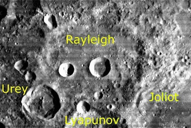 Photo Number IV-018-H3. Image of lunar impact craters Rayleigh, 29°N/89.2°E, Urey (formerly Rayleigh A), 27.9°N/87.4°E, and portions of adjacent craters Lyapunov and Joliot. This image has been edited to make it suitable for use in an article.